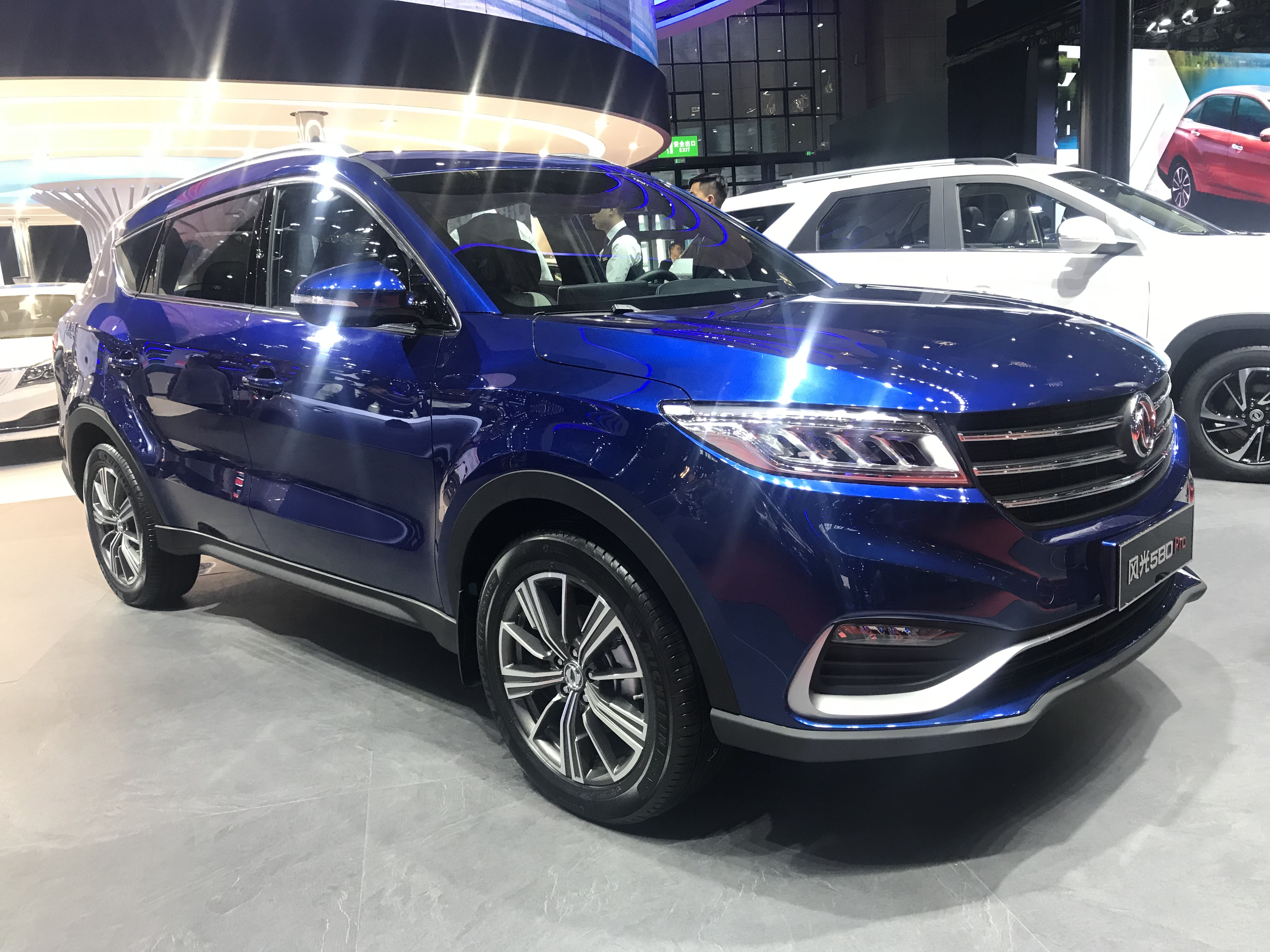 Dongfeng Fengguang 580 facelift